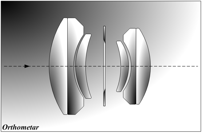 Orthometar lens.